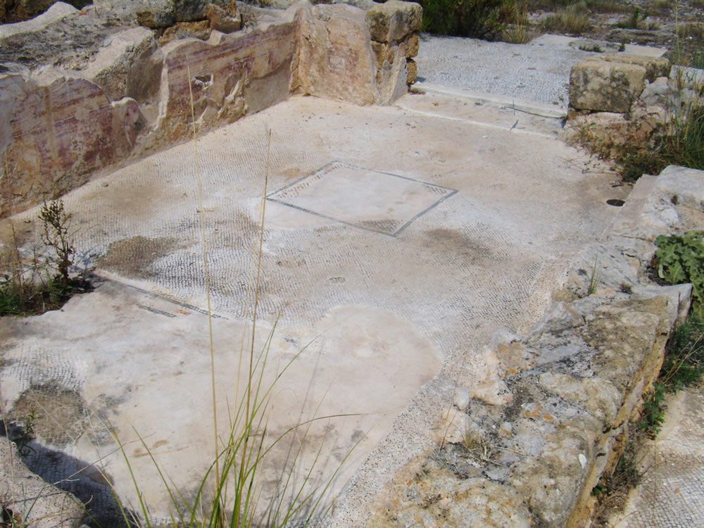 Solunto, Casa delle Ghirlande, mosaic